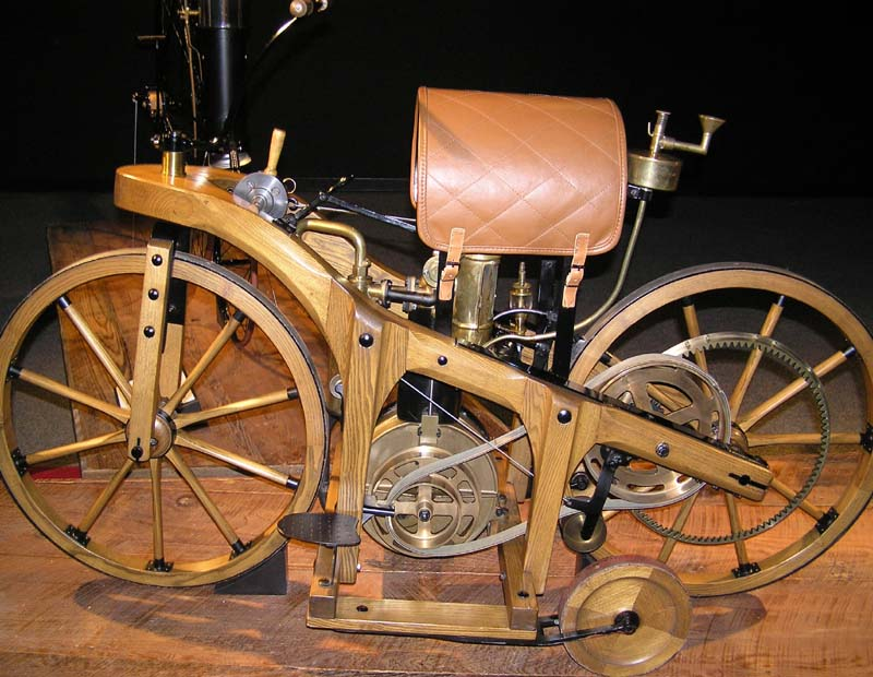 1885 Daimler Reitwagen (replica) The Art of the Motorcycle - Memphis